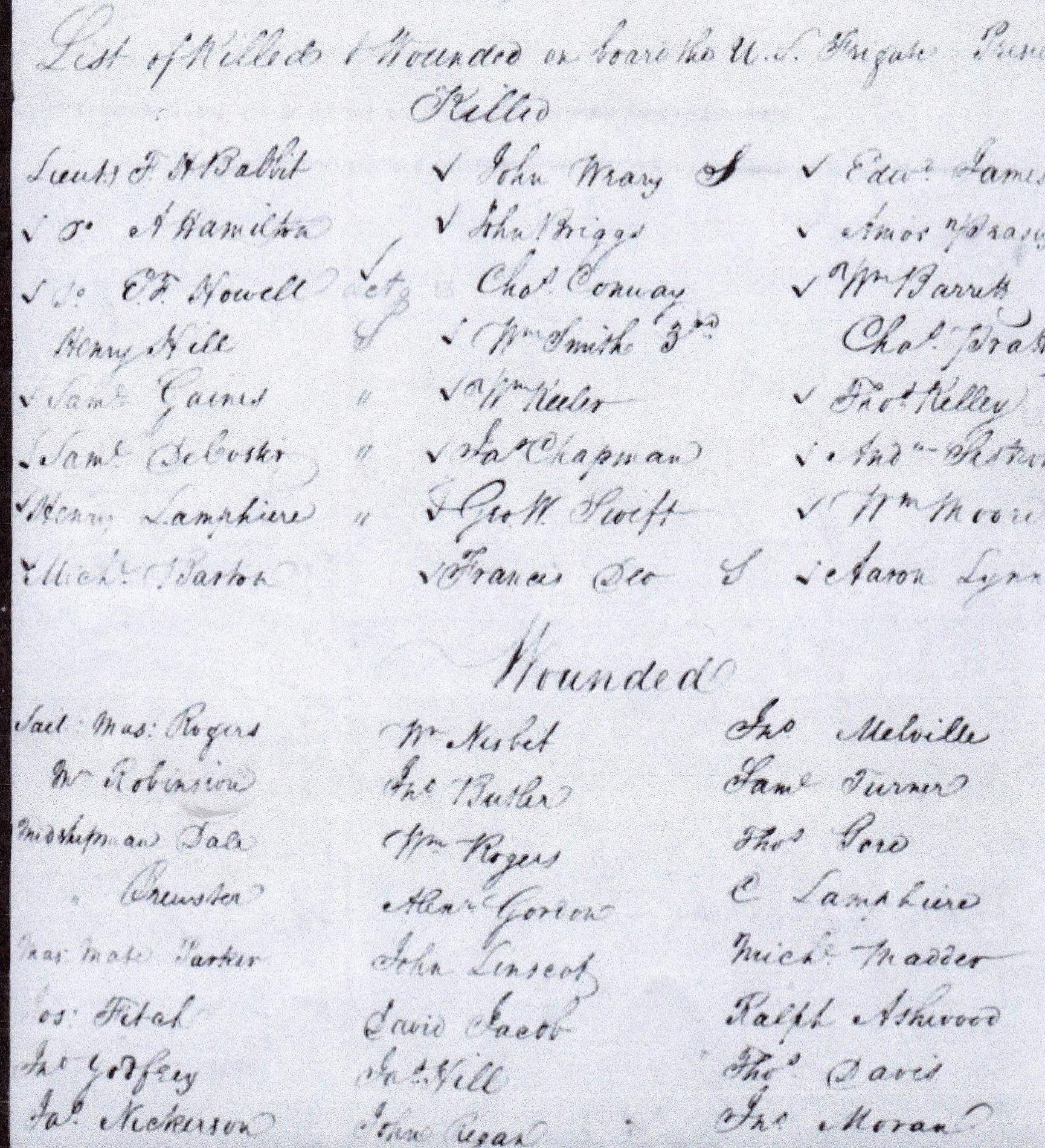 Commodore Stephen Decatur to SecNav 18 Jan 1815 partial list of Killed & Wounded on board the frigate President. List is from Decatur's letter of the same date.In letter Decatur writes “Of our loss in killed & wounded I am unable to present you a correct statement, the attention of our Surgeon [Dr. Trevett] being so on the wounded that he was unable to make a correct return … the enclosed list with the exception I fear of its being short of the [dying] will be found correct.”